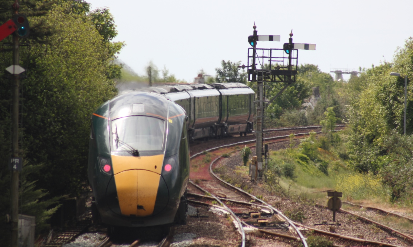 A ten-car 'InterCity Electric Train' climbs away from Par. 802008 and 802001 are working a Great Western Railway service from London Paddington to Penzance.